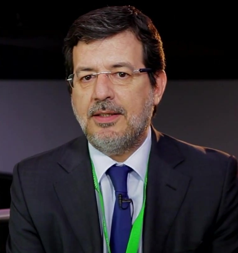 Entrevista a Fernando Andreu, magistrado de la Audiencia Nacional , en el marco del Congreso Jurisdicción Universal organizado por la Fundación Internacional Baltasar Garzón en Madrid del 20 al 23 de mayo de 2014.